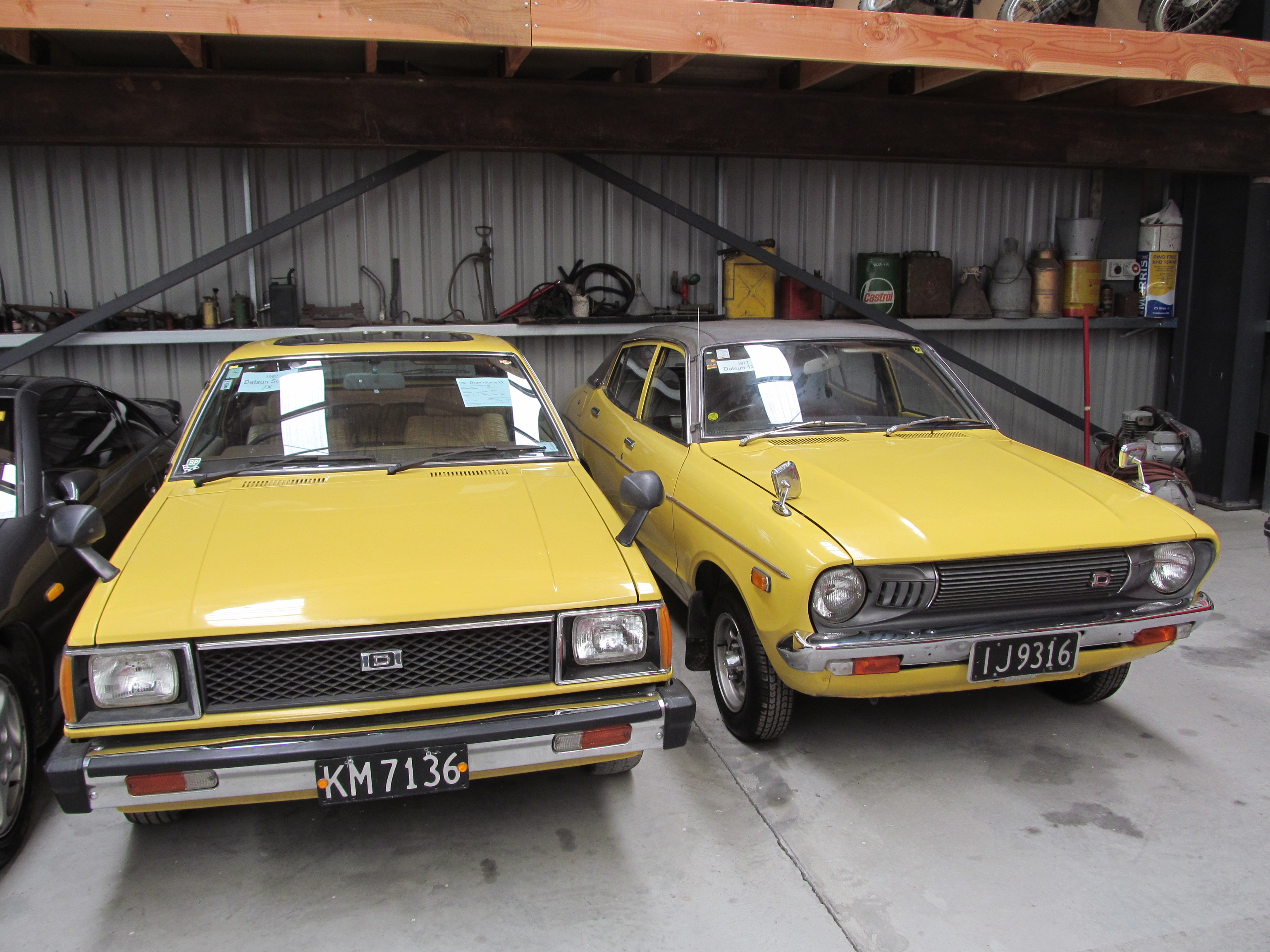 A perfect pairing of Datsun 120Ys/Sunnies, in matching colour and specification. The only difference is a 5 year age gap (and one doesn't have a vinyl roof!)